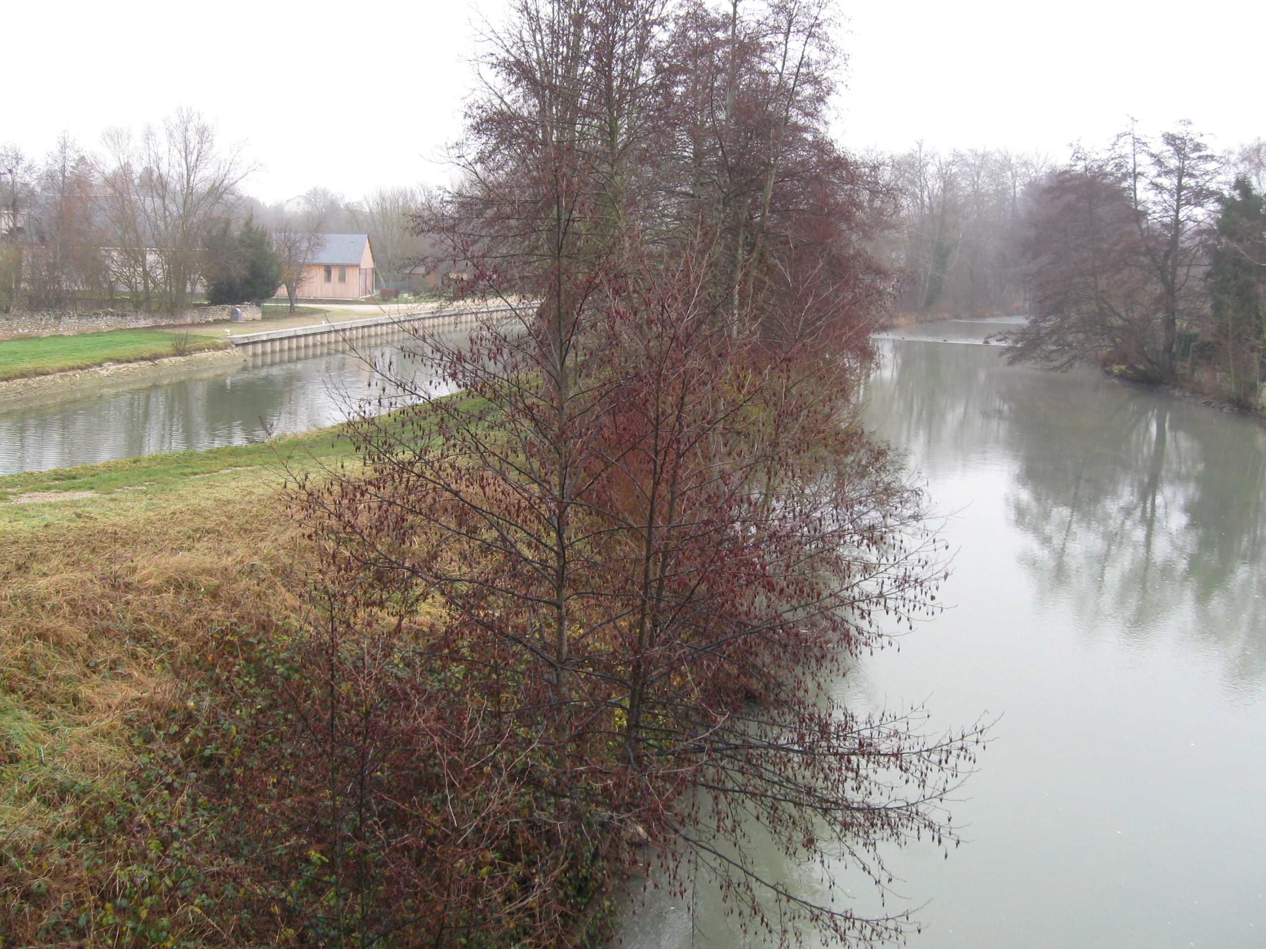 in Montbouy, Loiret, Centre region, France. Looking north from the bridge on the road to Châtillon-Coligny, the canal de Briare on the left and the Loing river on the right. The communal camping grounds are 120 m further down, on the right bank of the Loing river.